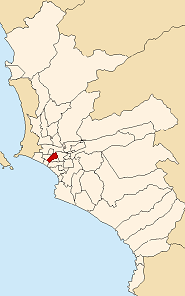 Map of Lima highlighting the Jesús María district — in Lima.